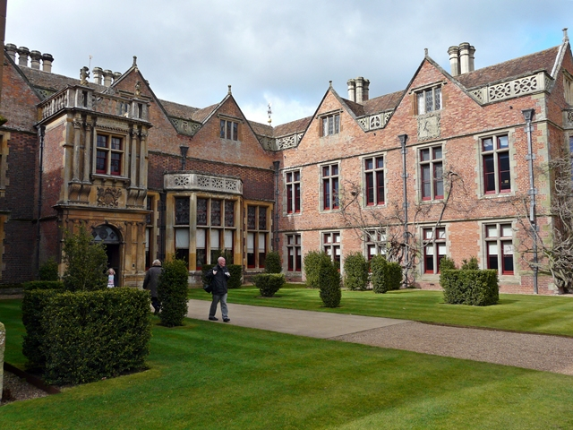 Charlecote House